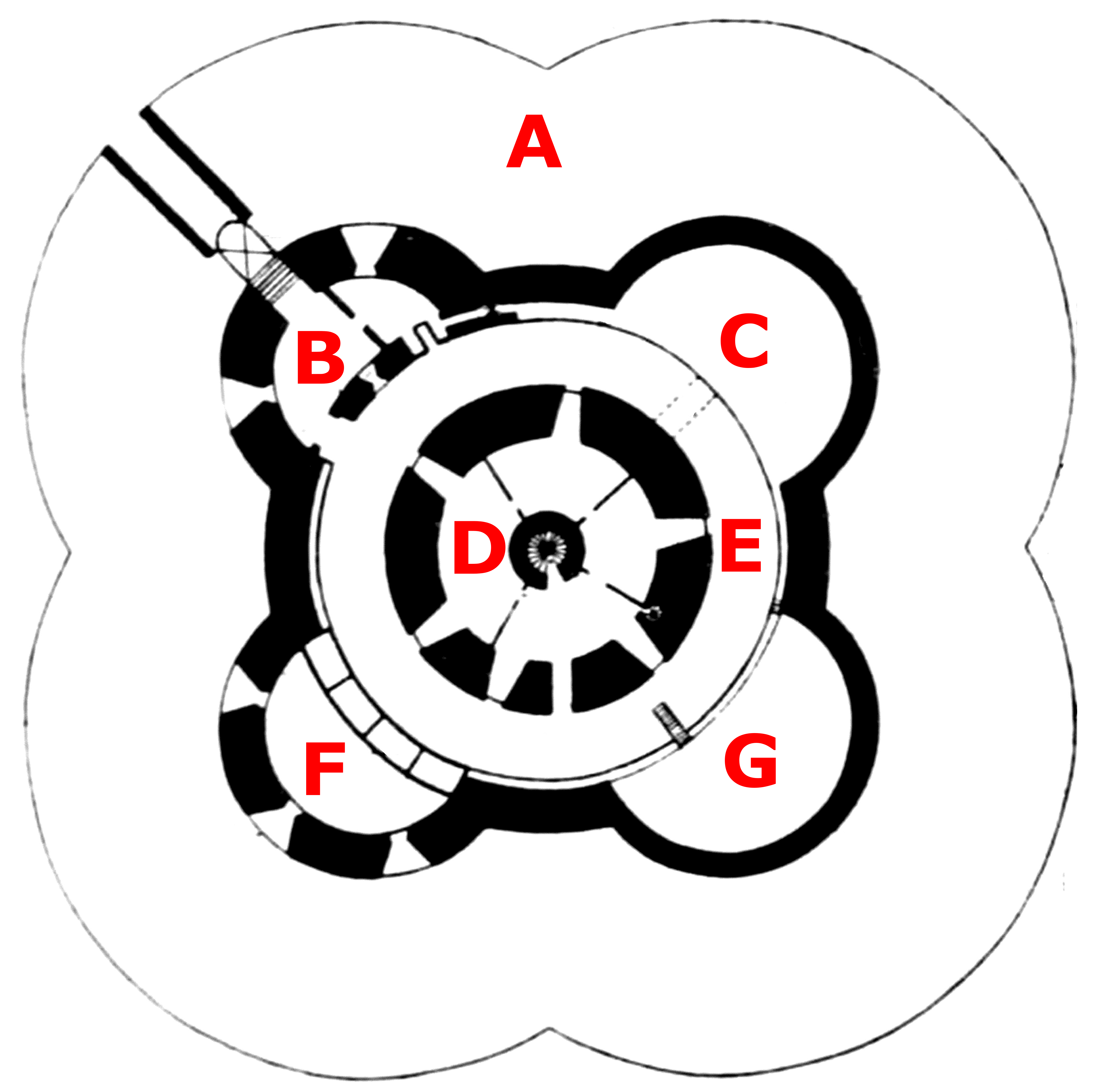 Sandown Castle plan labelled; cleaned and labelled by hchc2009